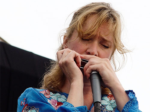 Hermine Deurloo at Aarhus Jazz Festival 2013